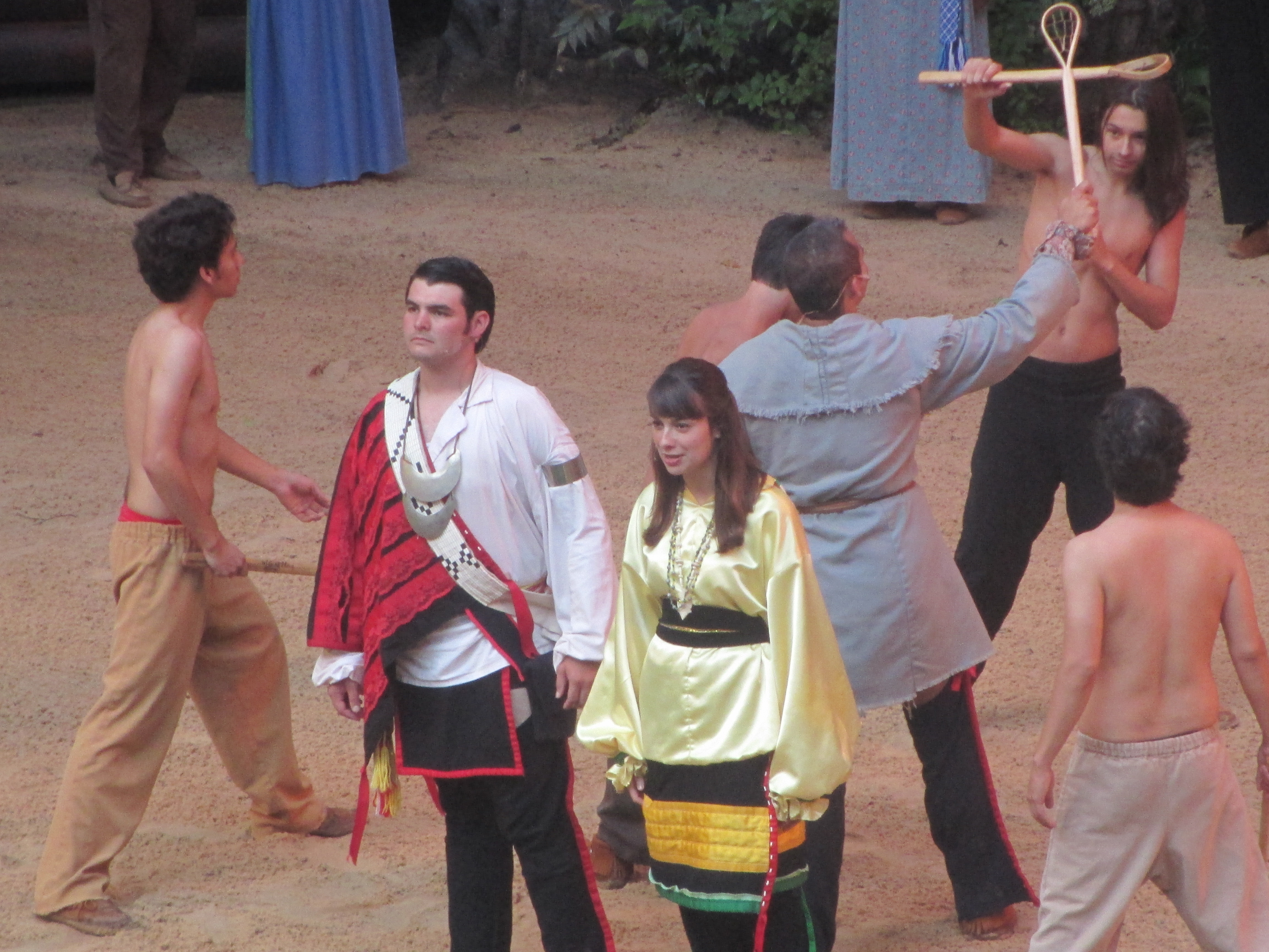 I took photo of "Unto These Hills" performers in Cherokee, NC, with Canon camera.